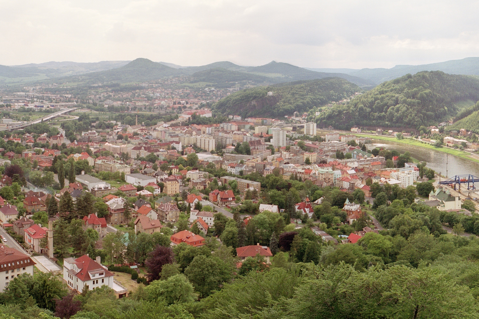 Cropped version of File:Decin-Czech Republic-panorama.jpg